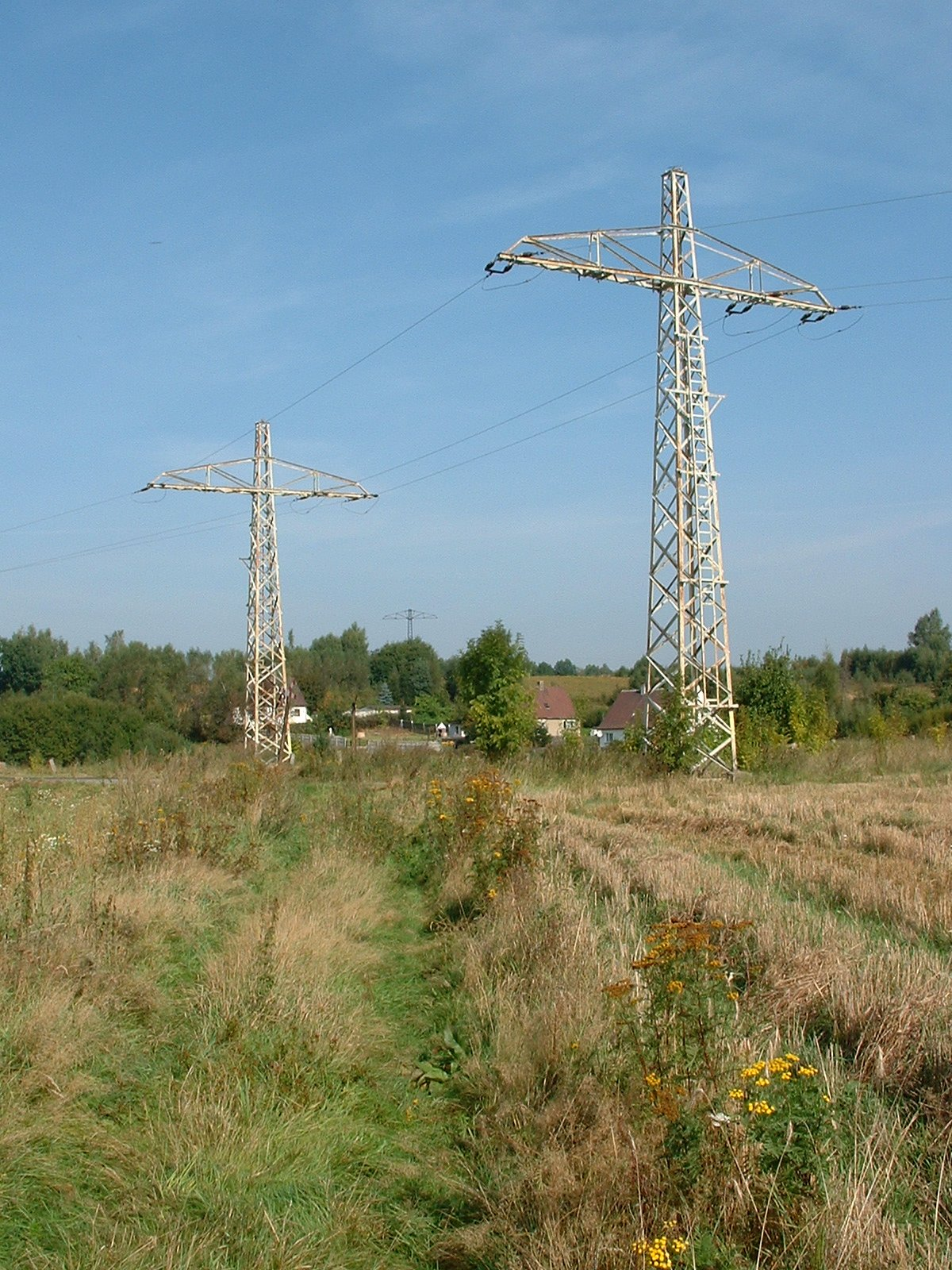 Original pylons of the former 80 kV traction power line (single-phase AC, 16 ⅔ Hz) of the Deutsche Reichsbahn traction power supply in Silesia near Greifenberg/Gryfów (Poland); today run with 15 kV within the 50 Hz three-phase AC power grid